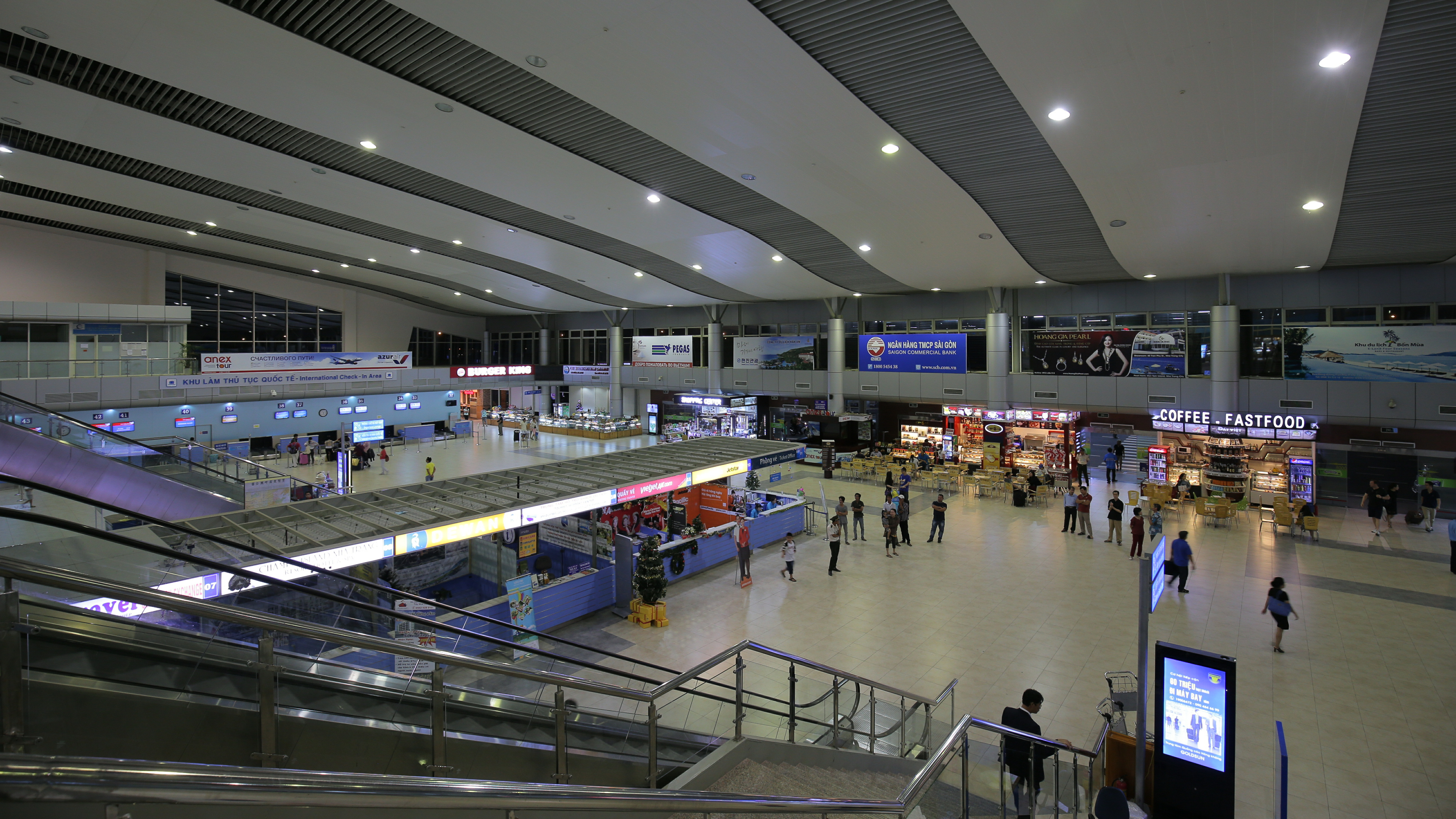 Cam Ranh airport interior, Vietnam